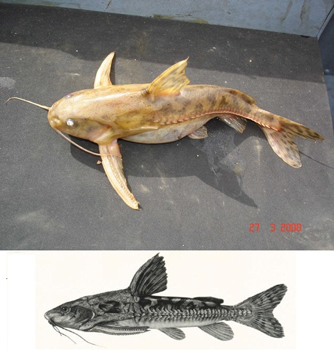 Cumbaca ou Gongó ou Serrudo (Franciscodoras marmoratus)